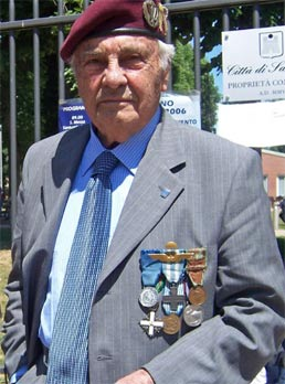 Carlo Massoni at a parachutist gathering in Saronno - 2 June 2006